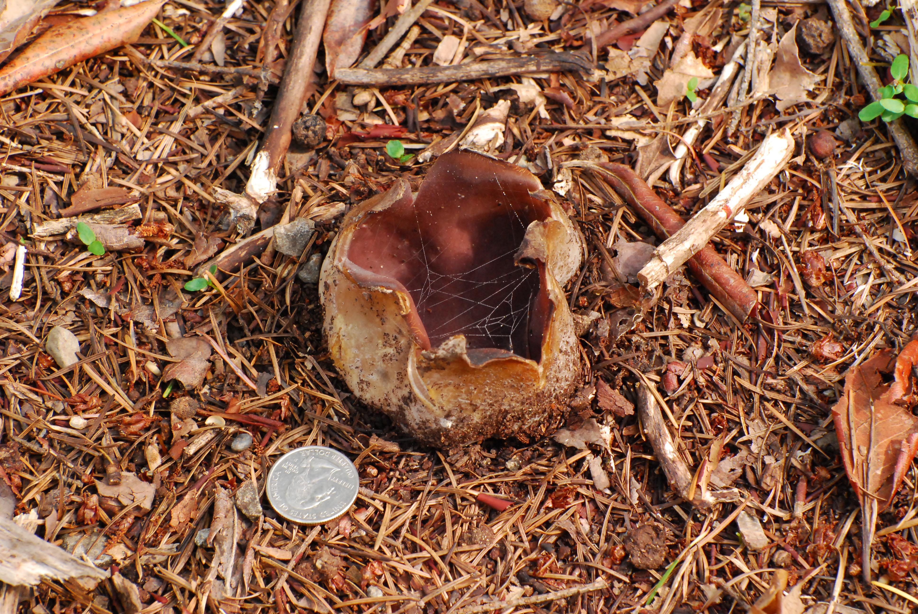 The fungus Sarcosphaera coronaria (Jacq.) J. Schröt. Specimen photographed in Oak Bottom Campground, Siskiyou Co., California, USA. "Notes: Late stage crown cup. observed for a month or more, in soil under Douglas Fir – Madrone canopy, very common in the campground."